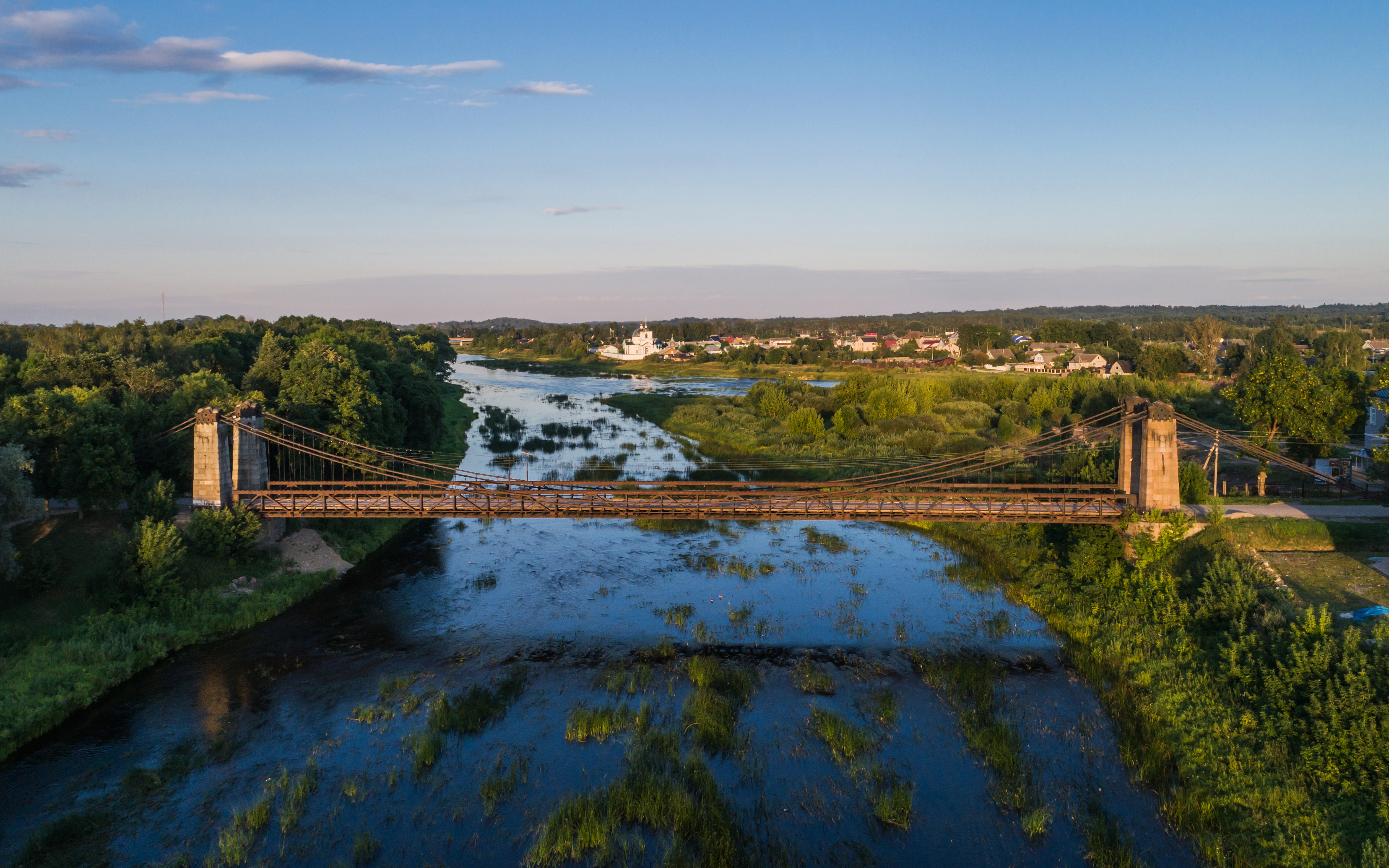 Aerial view – Northern Chain Bridge in Ostrov, Pskov Oblast, Russia.